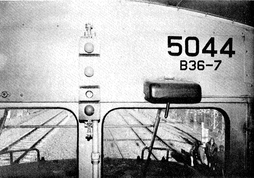 The interior of Conrail GE B36-7 #5044, which was involved in the 1987 Maryland train collision. The bulb for the "approach" aspect of the cab signal is missing.